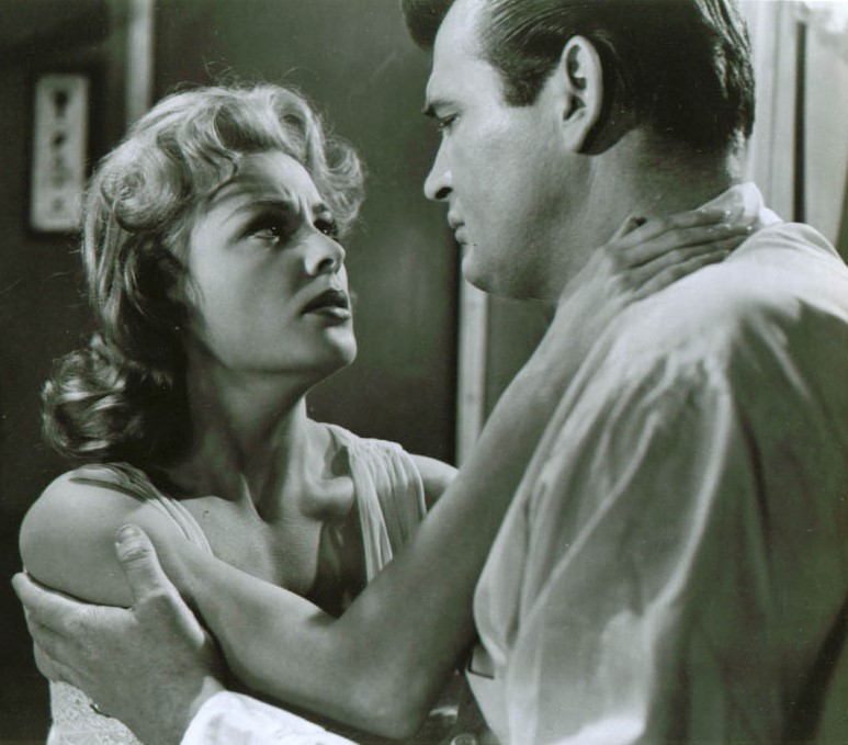 Kathleen Crowley & Gregg Palmer in The Rebel Set - publicity still (cropped)